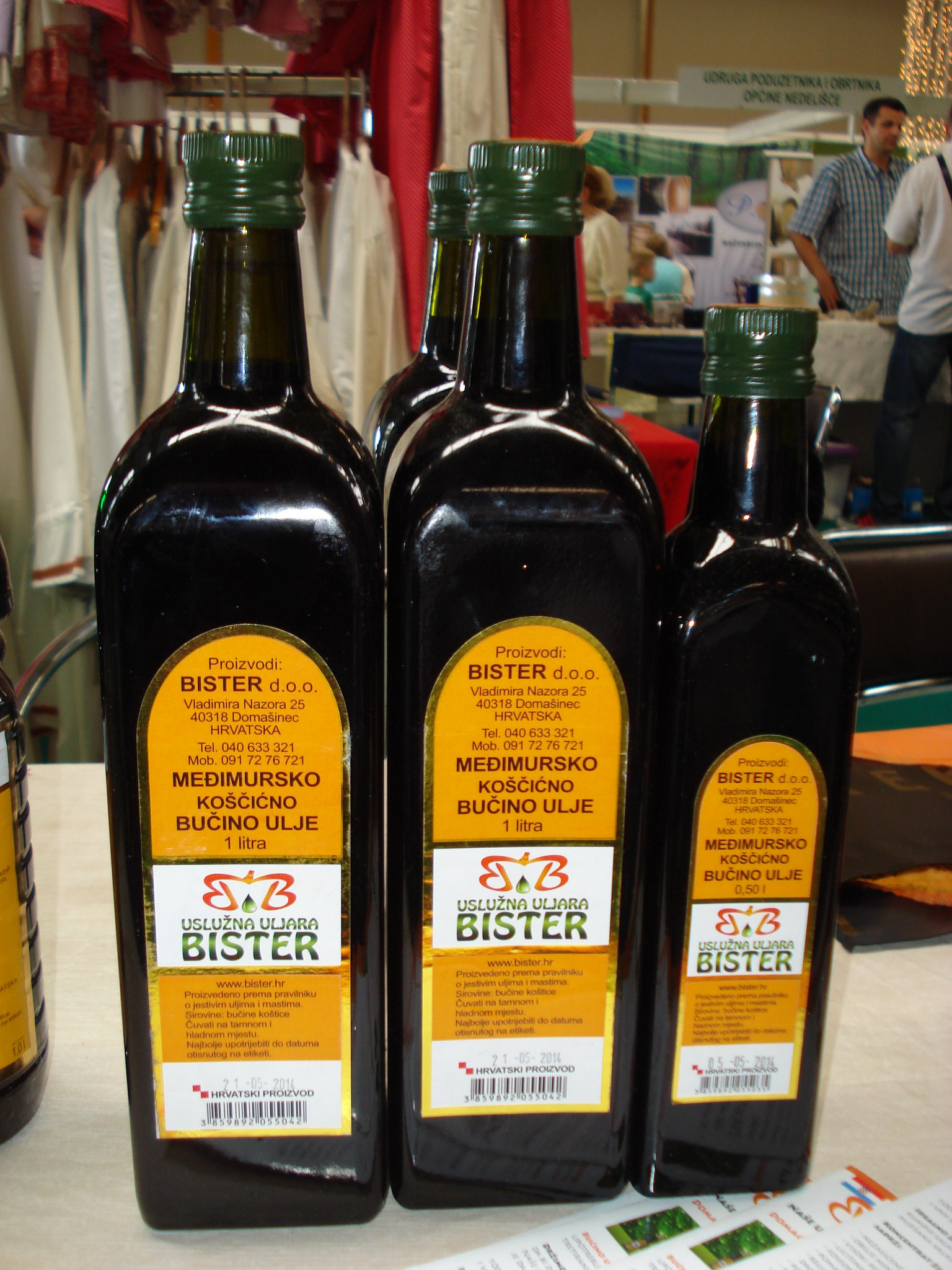 Pumpkin seed oil bottles at MESAP trade fair in Nedelišće, Medjimurie County, Croatia